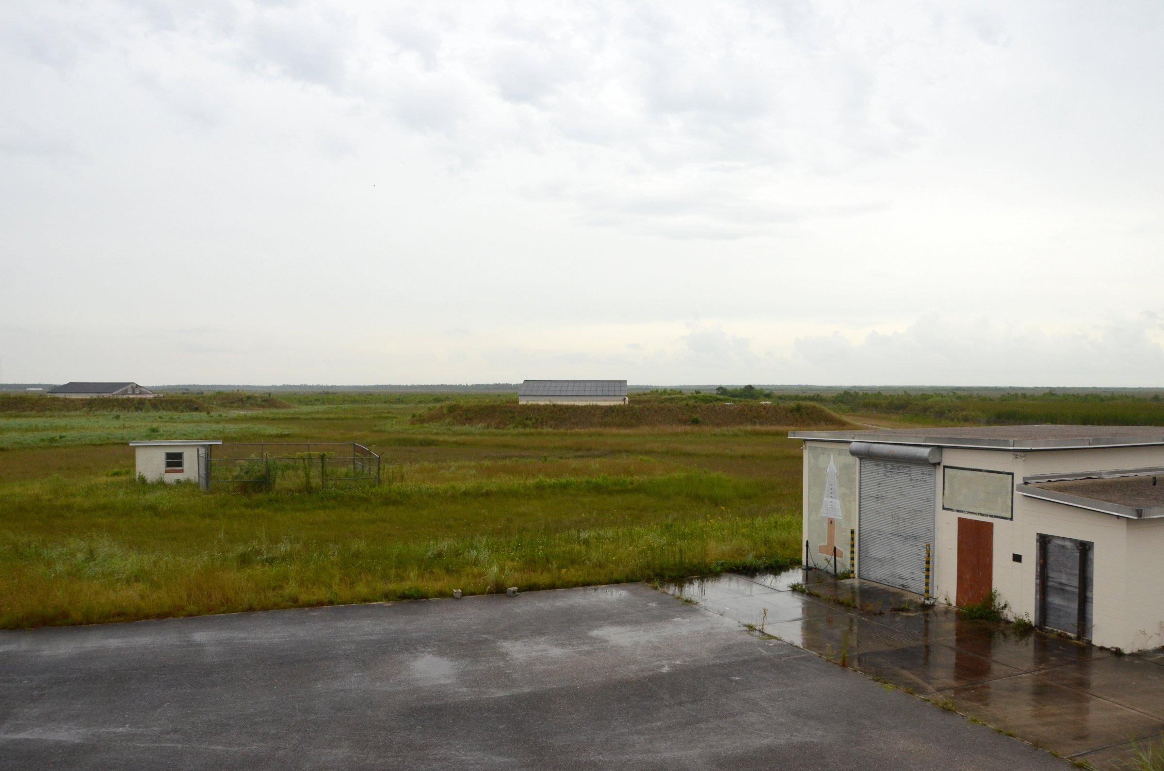 The historic Nike Missile Site HM-69 — the Nike Hercules Missile Site, called Alpha Battery or HM-69, as it stands in 2013. Located within Everglades National Park, in Miami-Dade County, southern Florida. This relic of the U.S. during the Cold War was closed in 1979, and is on the National Register of Historic Places in Everglades National Park.